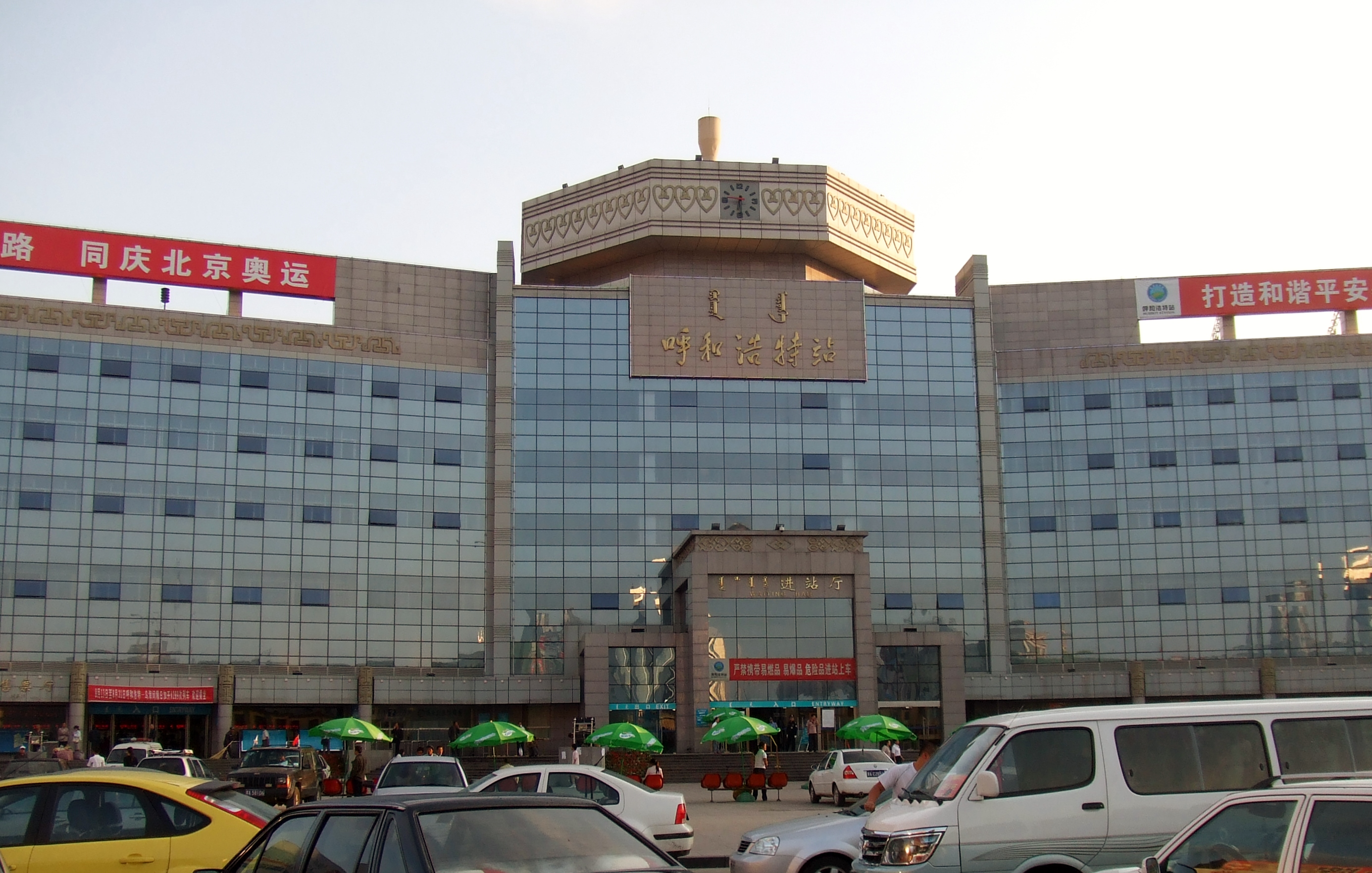 Hohhot railway station, Inner Mongolia, China